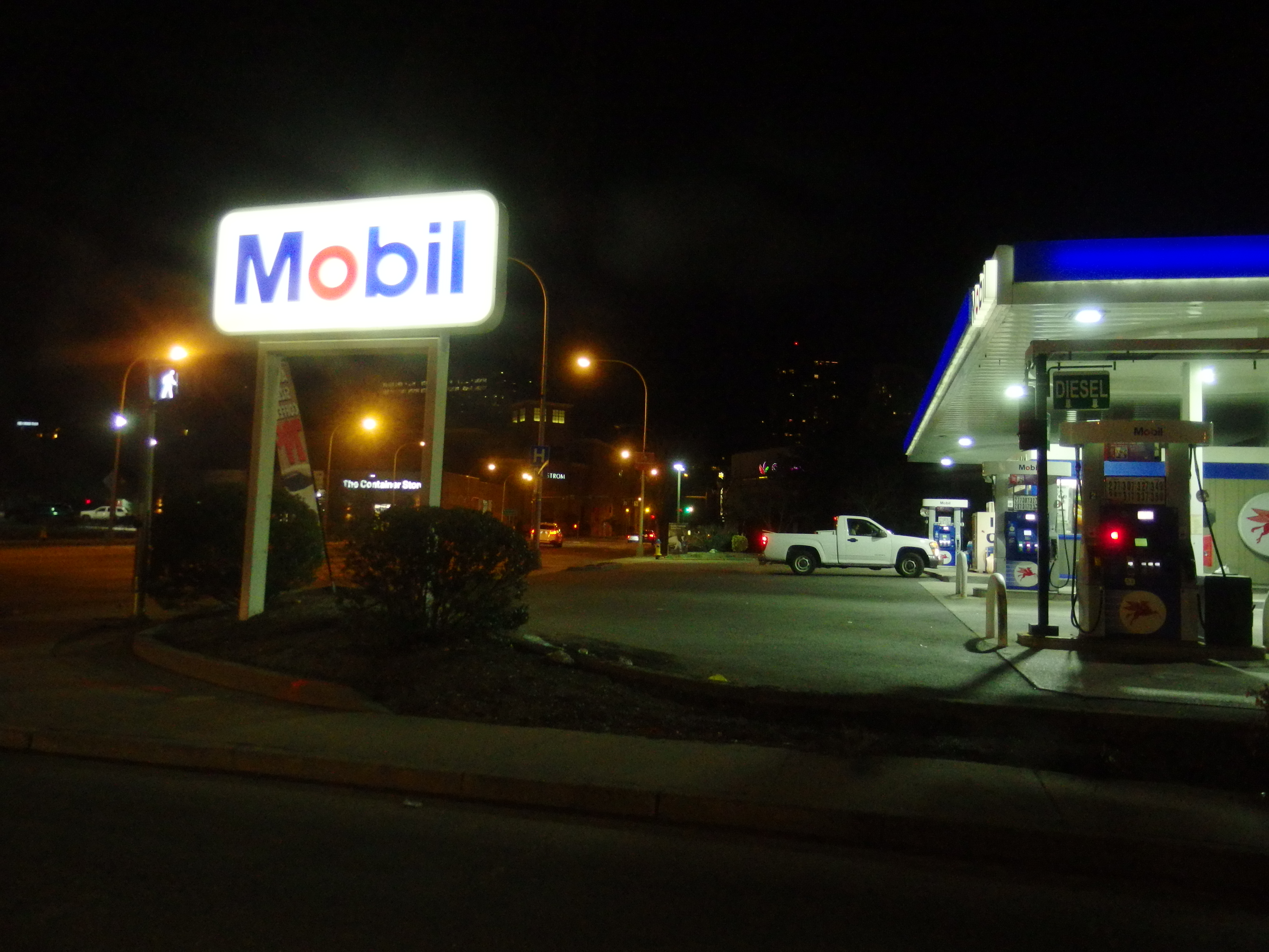 mobil gas station, white plains, NY.